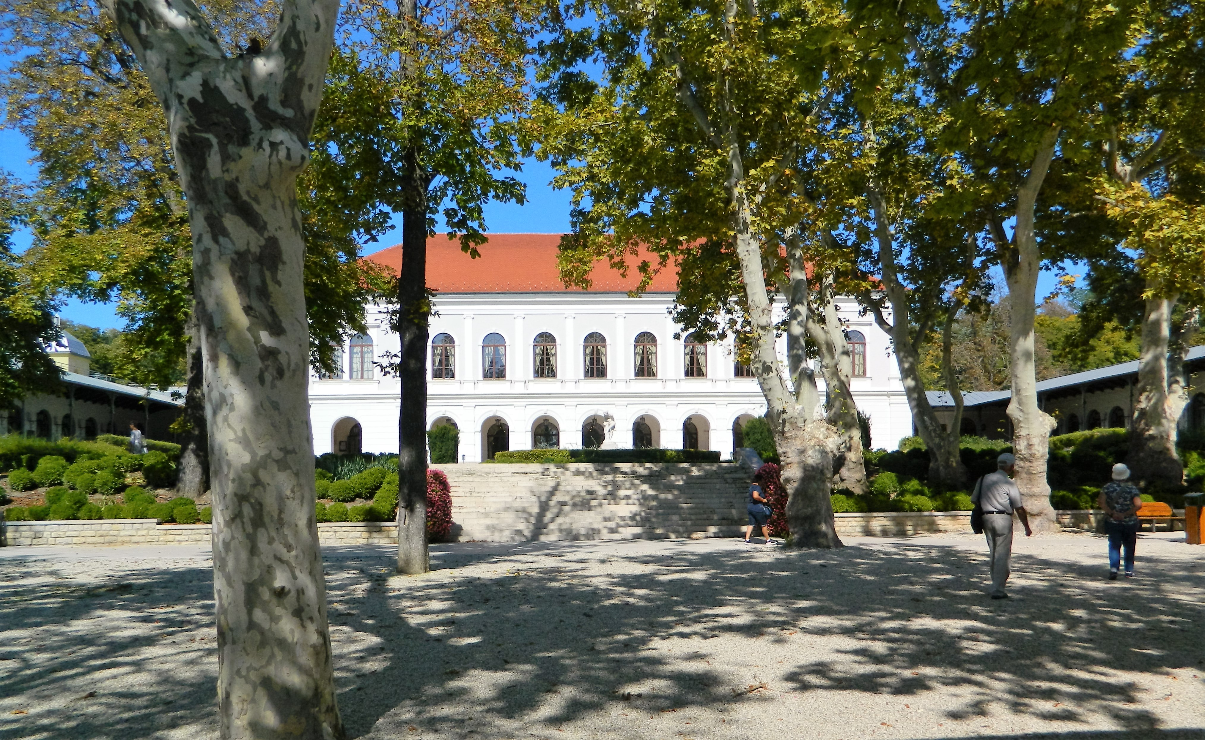 Anna Grand Hotel -- Old Grand restaurant & Dancing salon. Built between 1780-1783